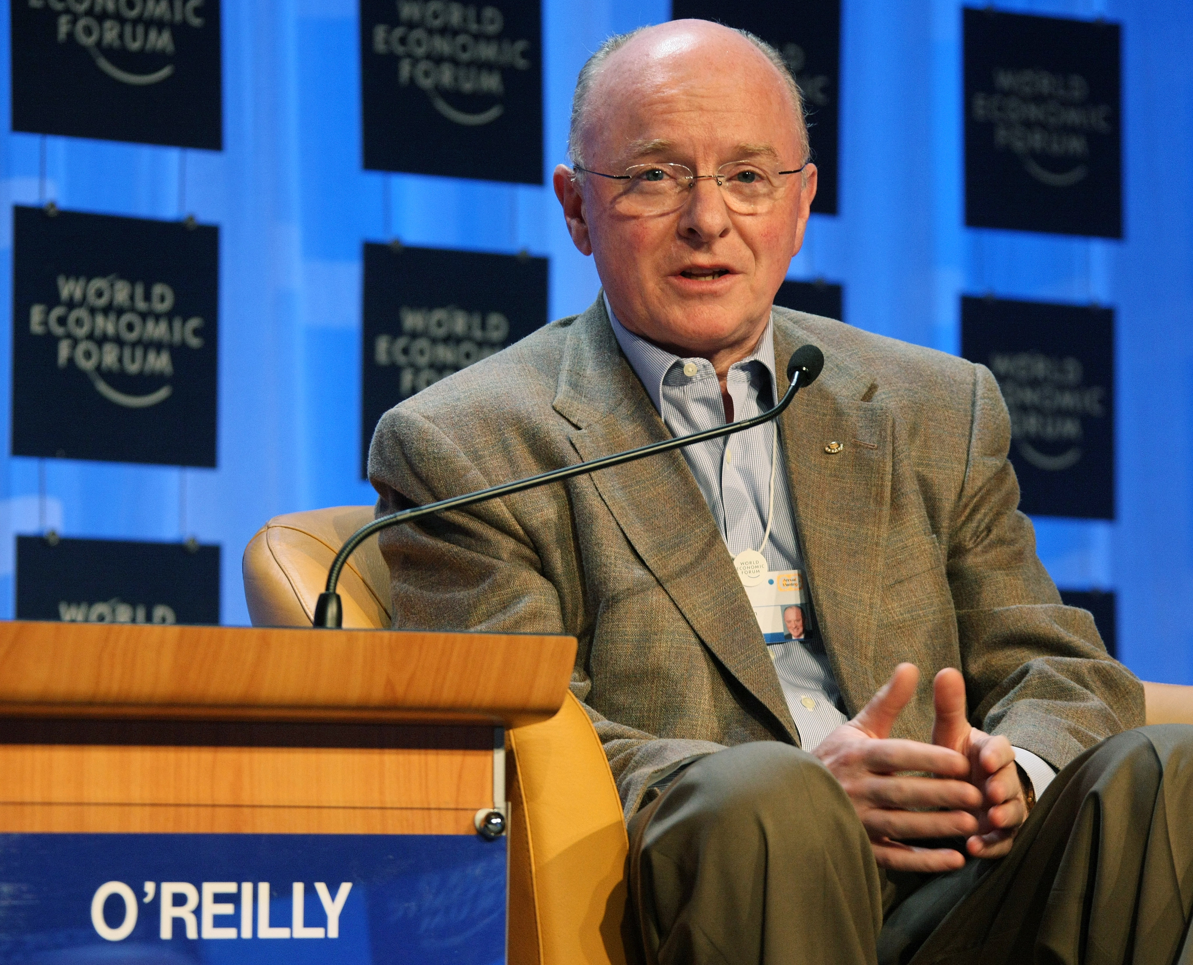 DAVOS/SWITZERLAND, 23JAN08 - David J. O'Reilly, Chairman and Chief Executive Officer, Chevron Corporation, USA, captured at the Opening Press Conference of the Annual Meeting 2008 of the World Economic Forum in Davos, Switzerland, January 23, 2008. Copyright World Economic Forum ( by Remy Steinegger